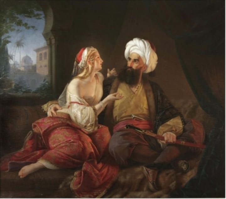 Ali_Pasha_and_Kira_Vassiliki_by_Paul_Emil_Jacobs_1802_1866.